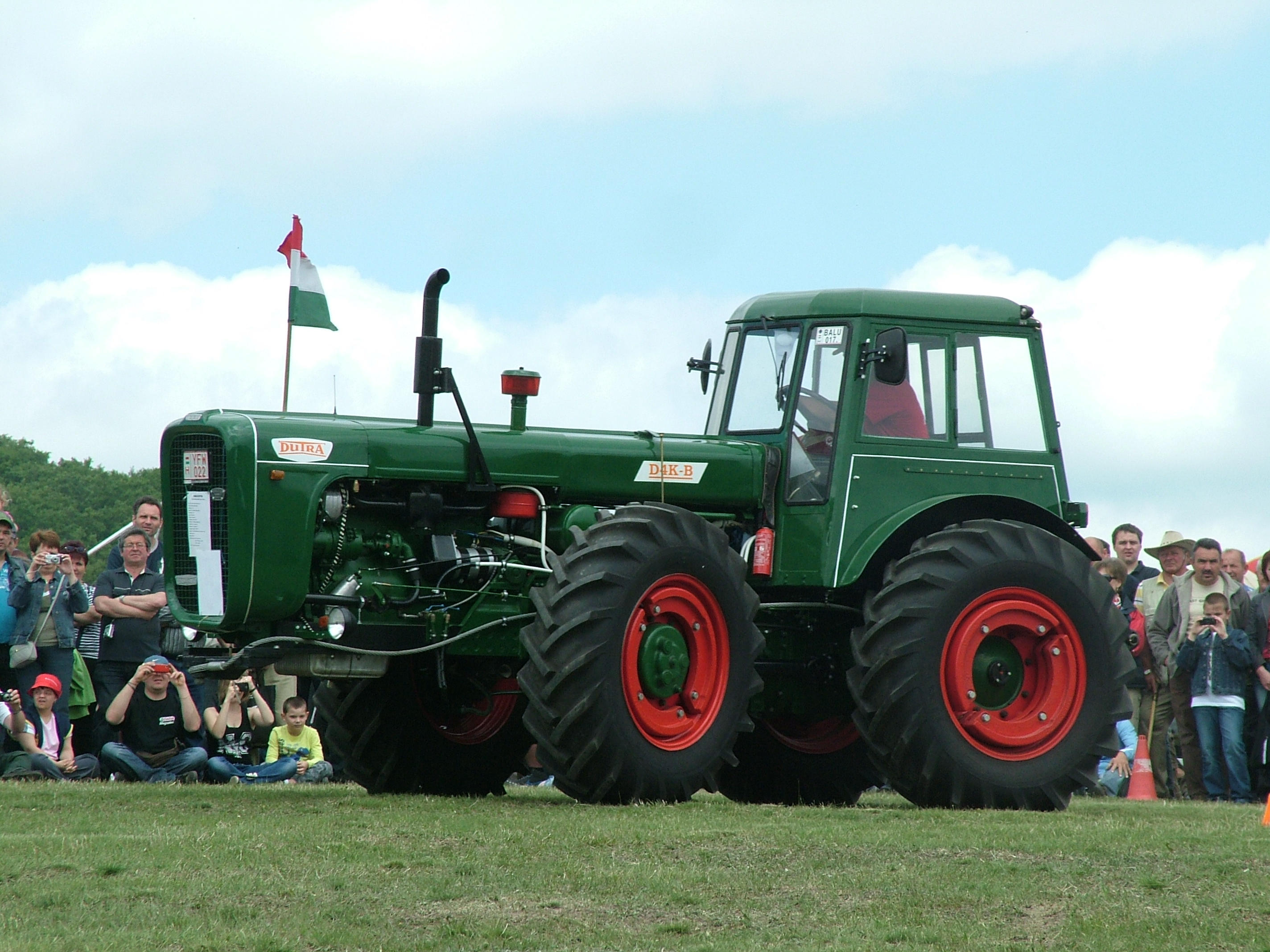 Dutra D4K-B at Traktormajális 2012.